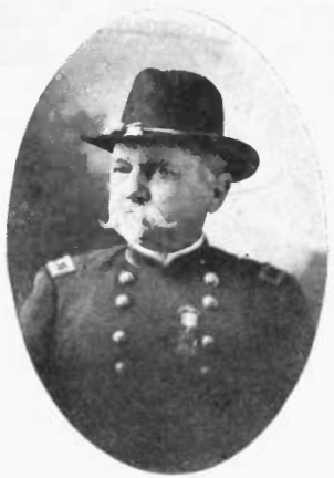 United States Army Major John Green of the 1st Cavalry Regiment received the Medal of Honor for his actions in the Indian Wars.